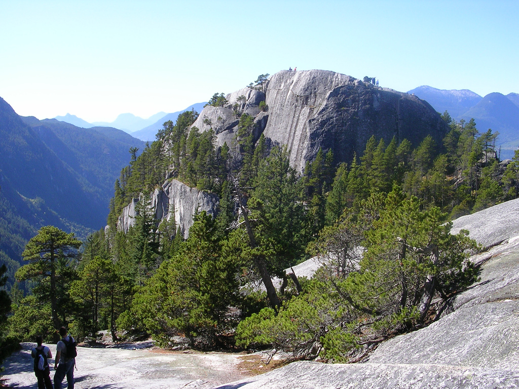 The South peak of the Stawamus Chief, a granite monolith near Squamish, British Columbia